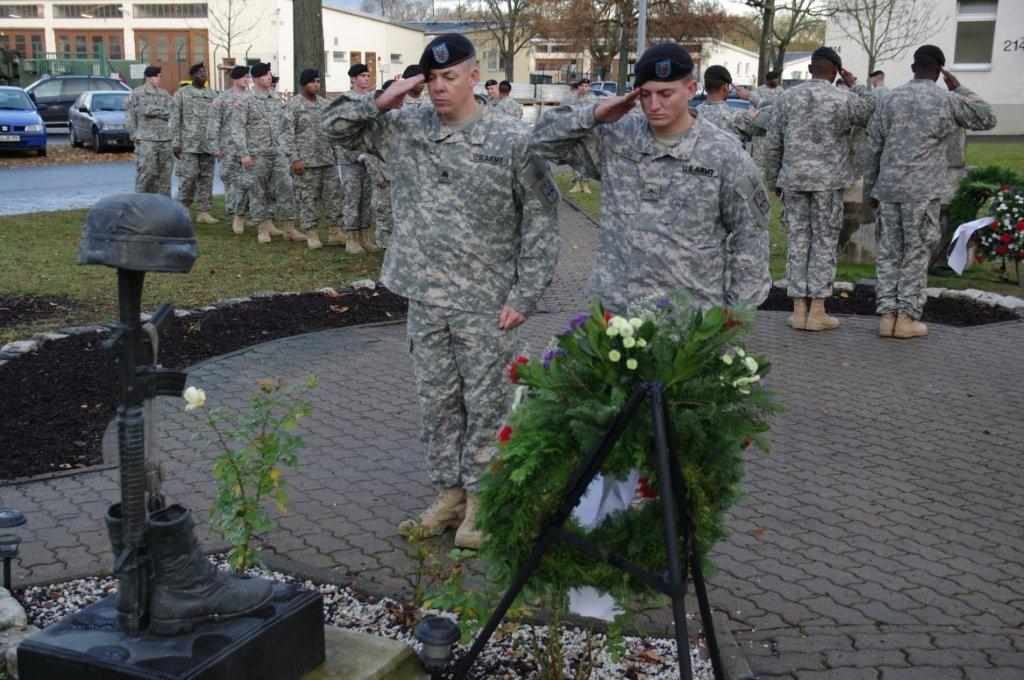 9th Engineer Battalion Soldiers Saluting Fallen Soldier Memorial, Ledward Barracks, Schweinfurt, Germany, 2011